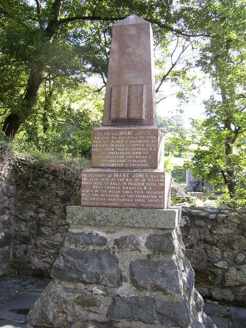 Mary Jones's Monument. Mary Jones was a girl who wanted a Welsh Bible of her own. After saving for six years and walking twenty five miles in order to buy one, her determination inspired the formation of the British and Foreign Bible Society.